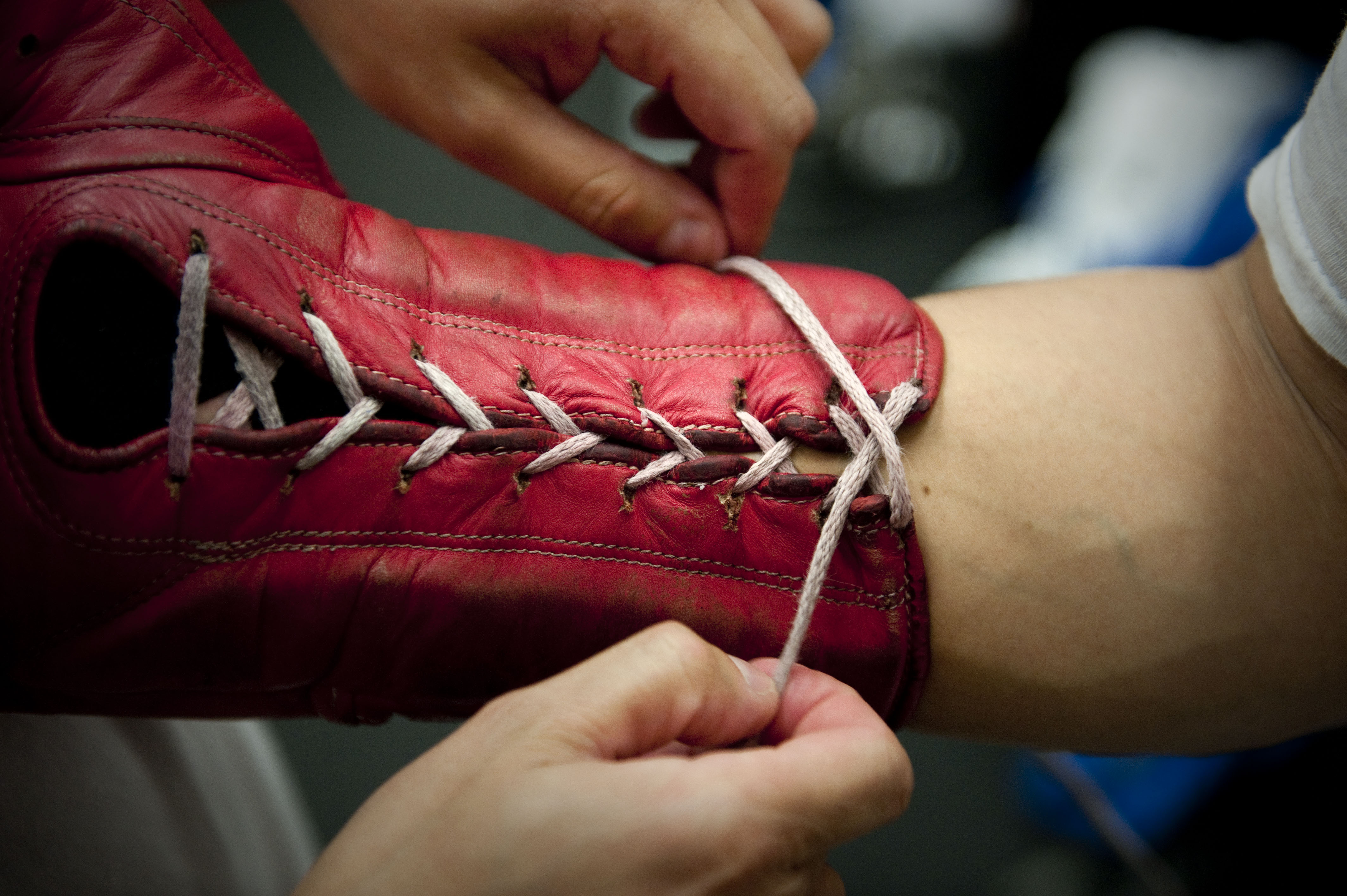 A U.S. airman has his boxing gloves laced before he begins his gym training on Lackland Air Force Base, Texas, Feb. 17, 2011.